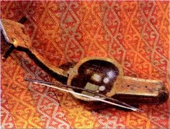 Kobyz, a former Kazakh kemençe or string instrument related to the violin or rebab